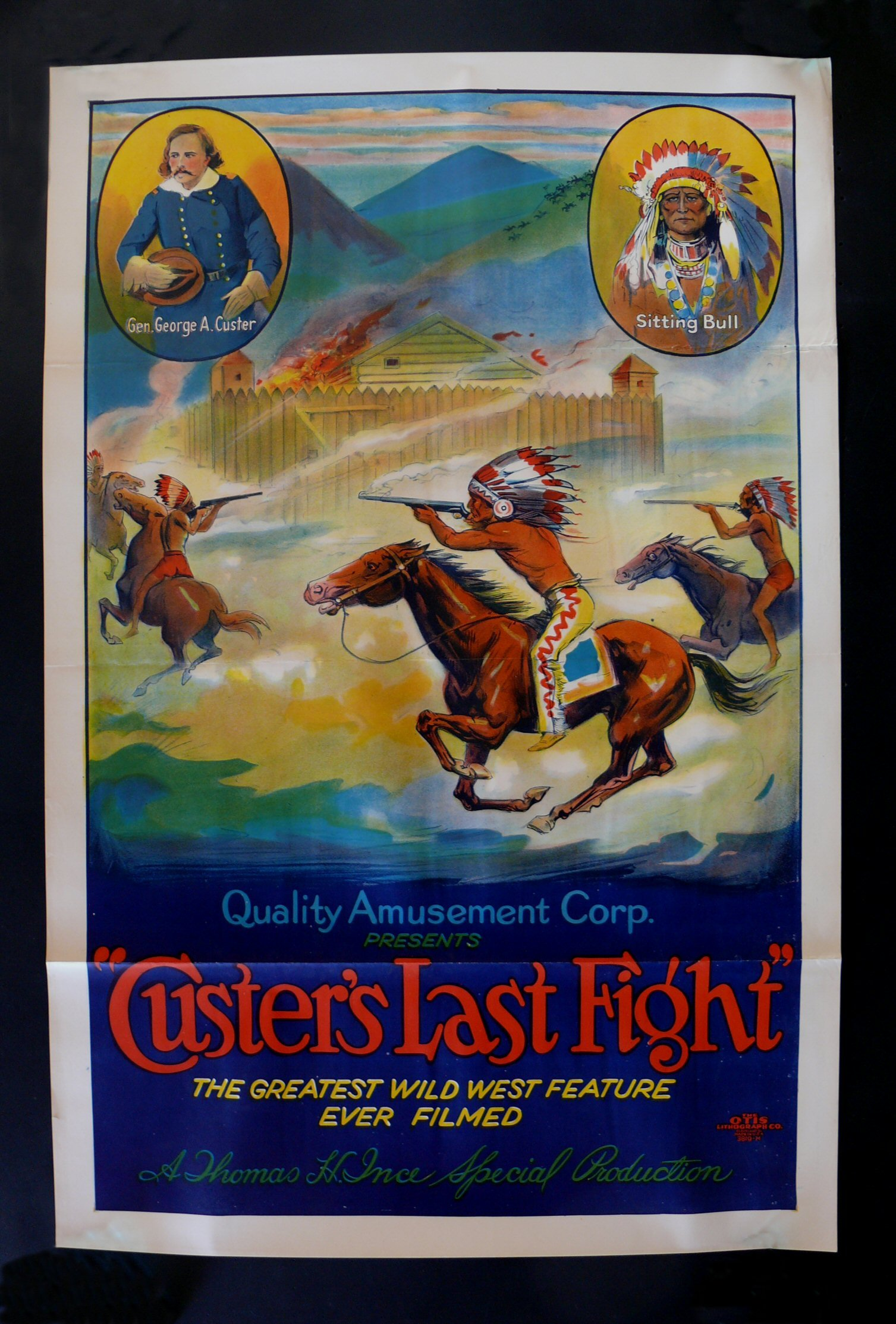 Custer's Last Fight movie poster. Edited rerelease of the 1912 film; more information at the The Progressive Silent Film List